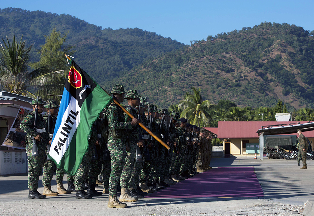 U.S. Marines and the Timor-Leste Defense Force, attend the opening ceremony for Exercise Crocodilo 16-1, Hera Naval Base, Timor-Leste, June 6, 2016. This exercise is part of Task Force Koa Moana’s deployment throughout the Asia-Pacific region which will serve to further strengthen alliances, and highlight the effectiveness of a maritime prepositioning force. (U.S. Marine Corps Imagery by MCIPAC Combat Camera Lance Cpl. Jesus McCloud/Released)